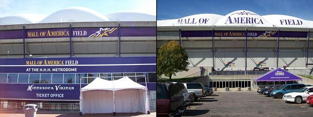 Metrodome signage for 2010